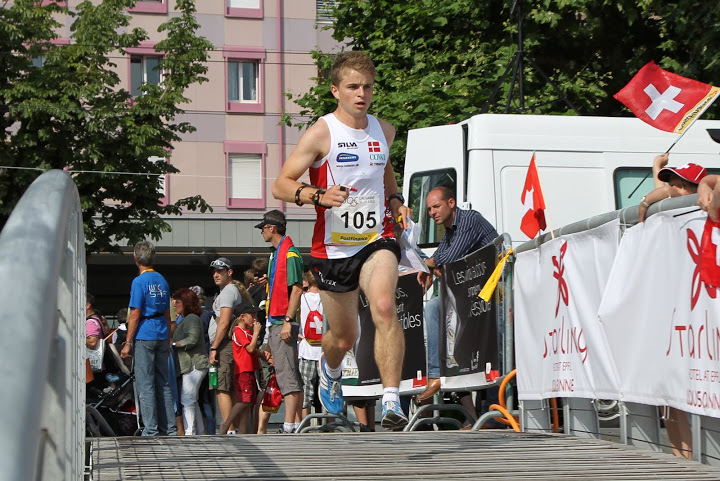 Søren Bobach, World Orienteering Championships 2012